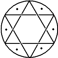 One simple form of the Seal of Solomon. Sketched by me. Securiger 16:24, 20 Sep 2004 (UTC)